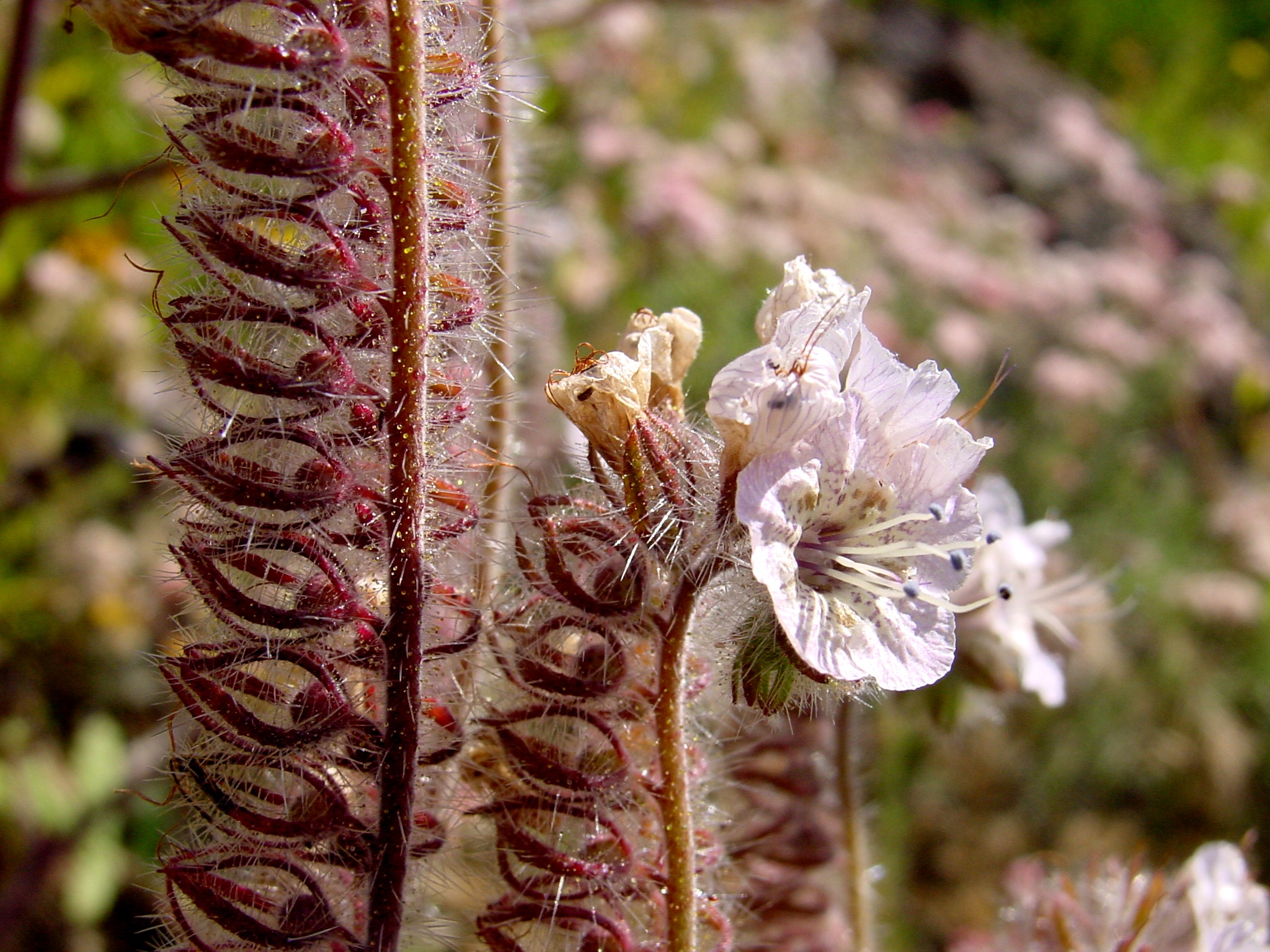 Author: Noah Elhardt Subject: Phacelia cicutaria Location: Wildwood Park, Thousand Oaks, CA